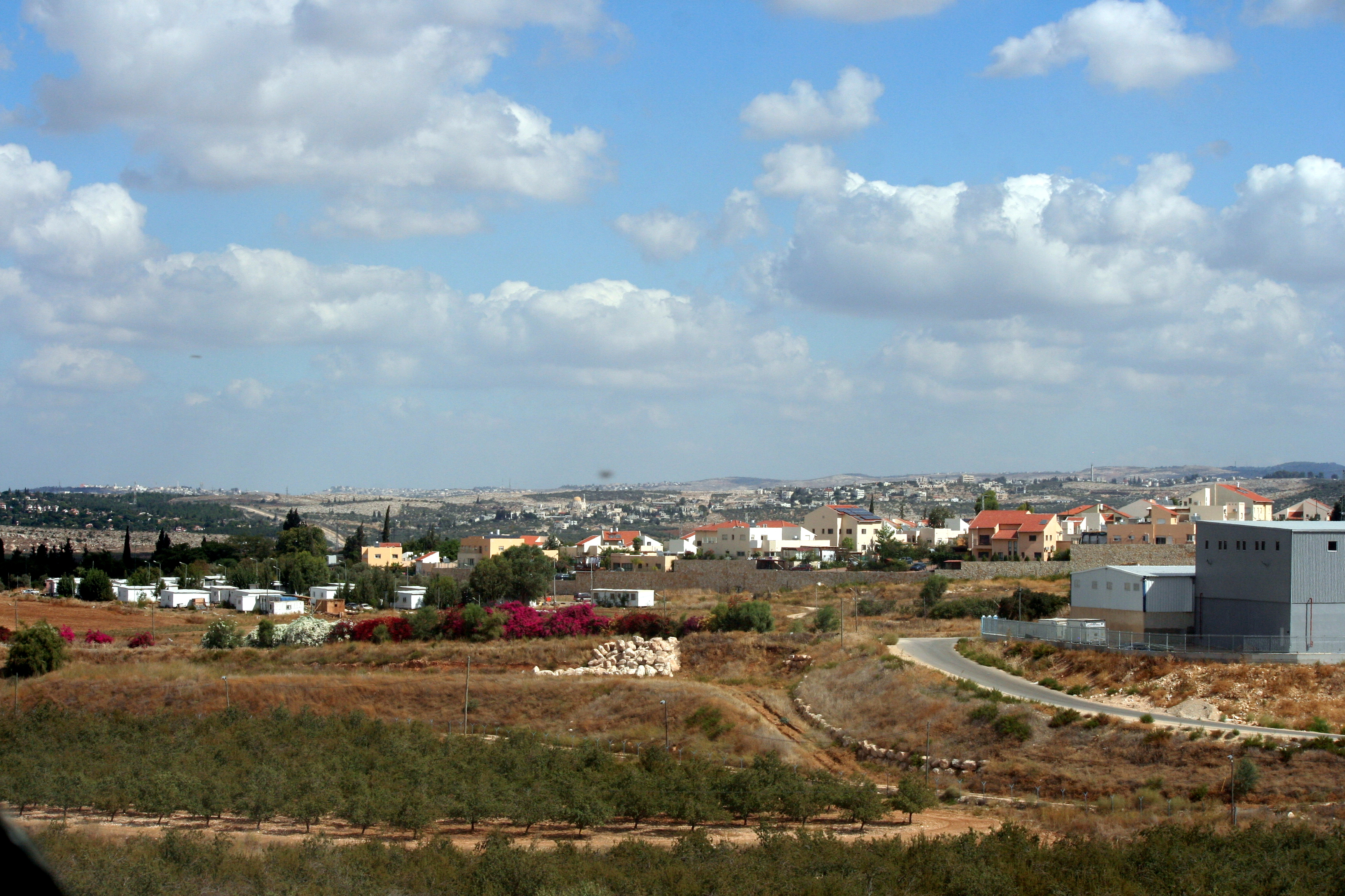 Mevo Horon (Hebrew: מְבוֹא חוֹרוֹן, lit. Horon Gateway) is an Israeli settlement and religious moshav shitufi in the West Bank.